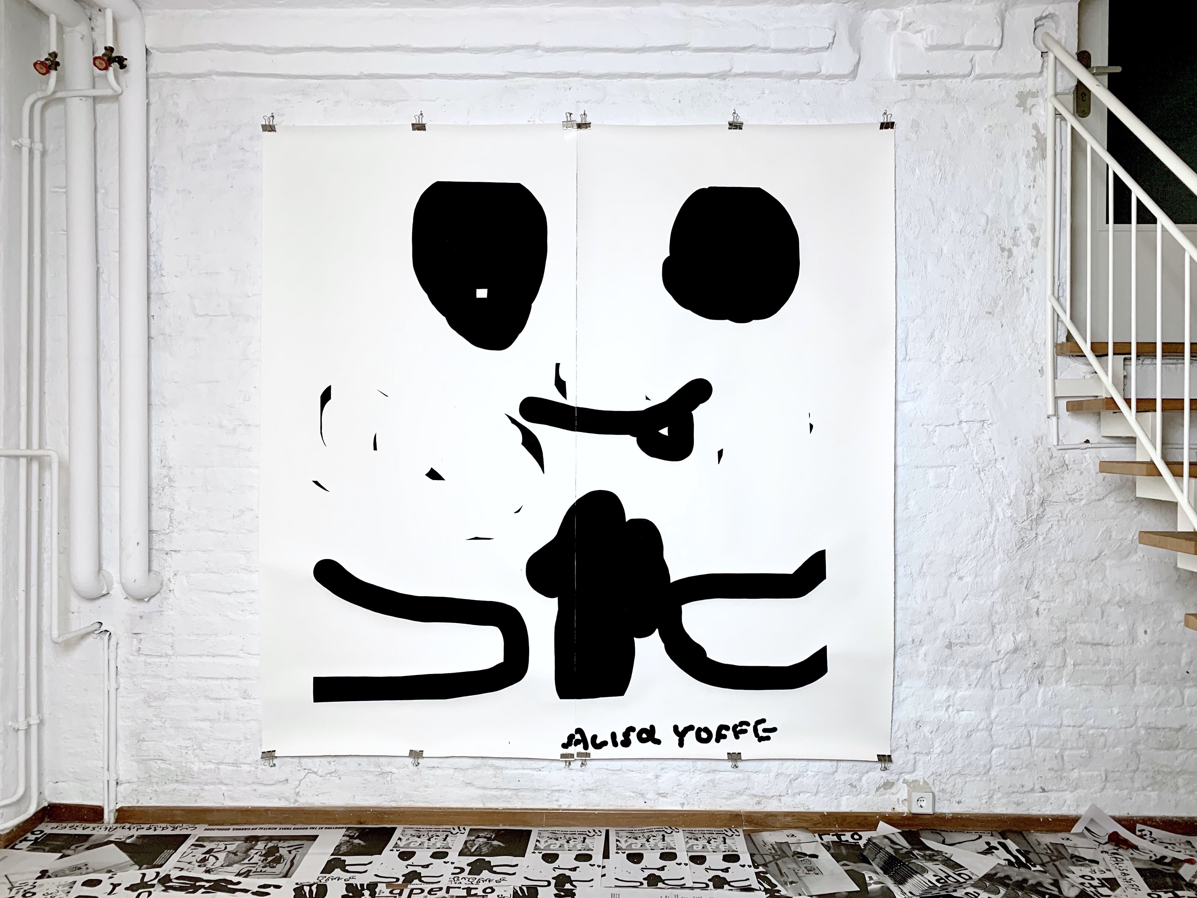 More info